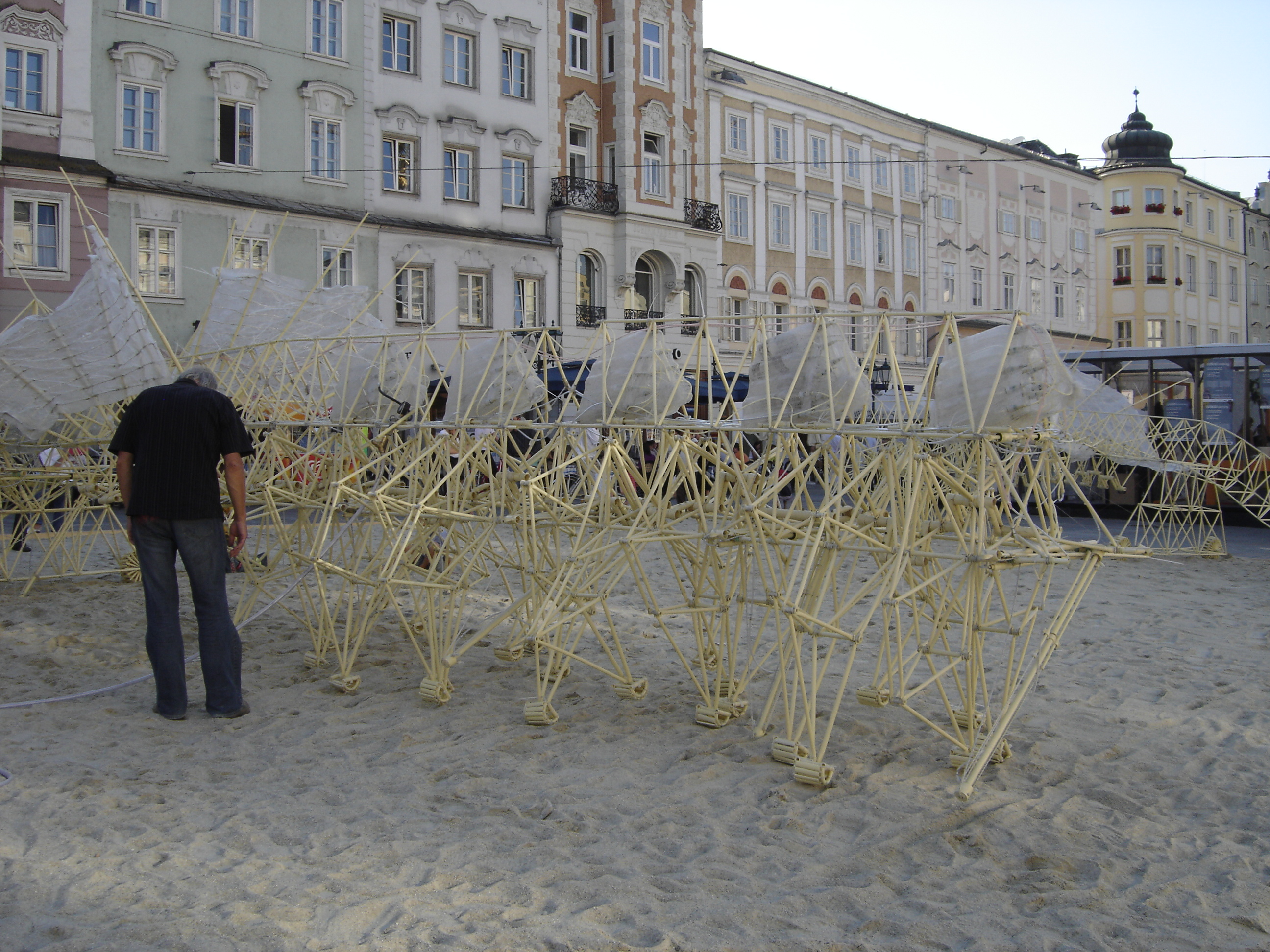 One of Theo Jansen's Strandbeest constructions.